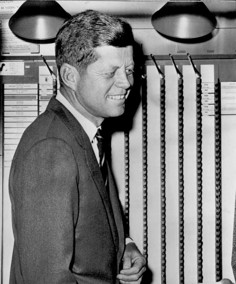 Photo of John F. Kennedy posing for photographers after casting his ballot in the 1960 Presidential Election. Kennedy voted on the voting machine shown in the photo; his polling place was in a branch of the Boston Public Library. A search for renewal was done at in 1960 for Associated Press; there were no results. A renewal search was done at for the Terre Haute Tribune; there were no results; there's no evidence of copyright for the photo.